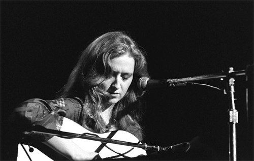 Circa 1976, probably at the Berkeley Community Theater.